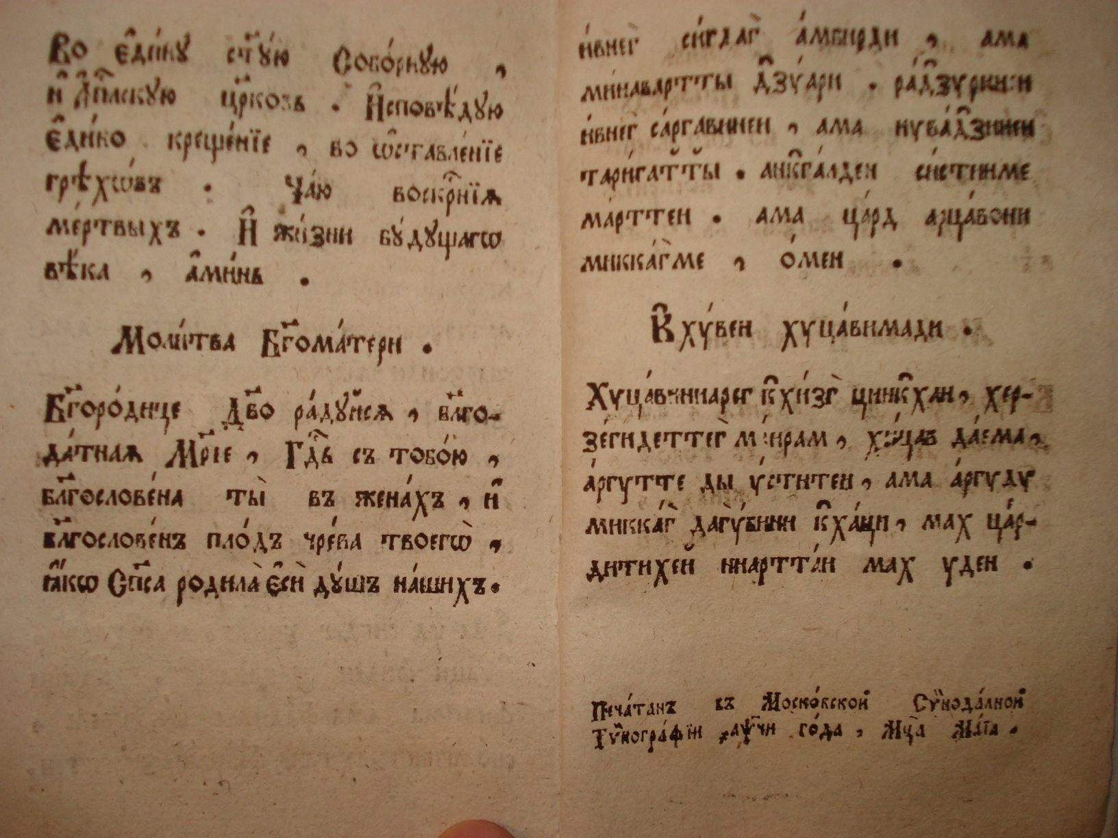 The first printed book in Ossetic, published in 1798. The right column is in Ossetic.